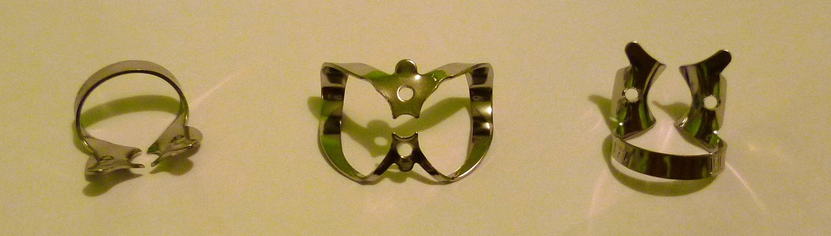 Several dental clamps.